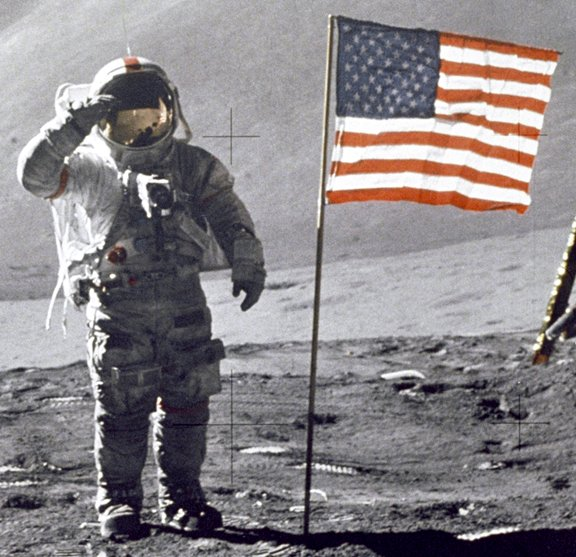 Astronaut David R. Scott, commander, gives a military salute while standing beside the deployed U.S. flag during the Apollo 15 lunar surface extravehicular activity (EVA) at the Hadley-Apennine landing site. The flag was deployed toward the end of EVA-2.